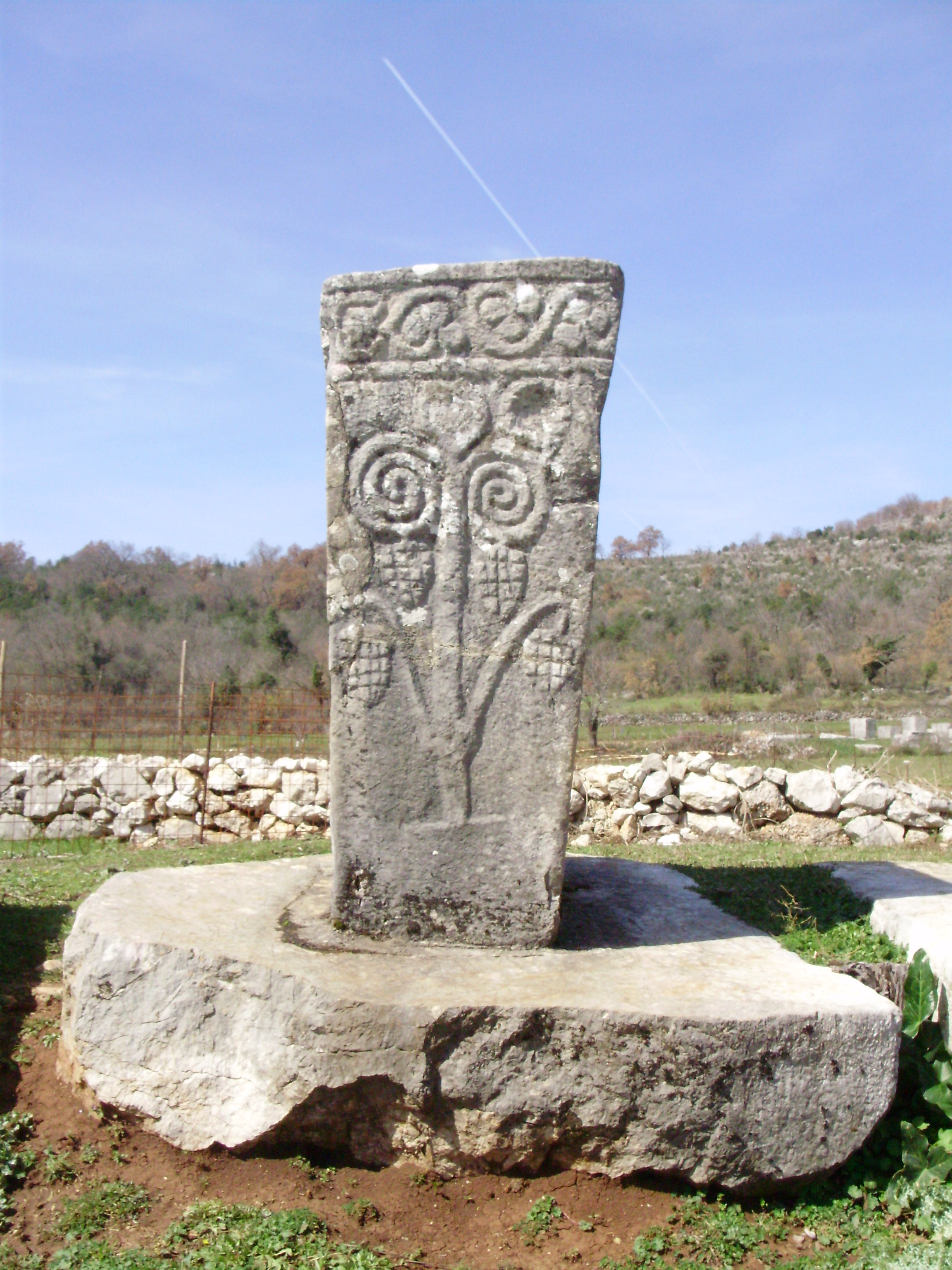 Medieval tombstone